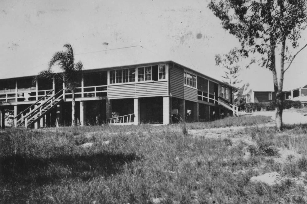 Diamantina Hospital for Chronic Diseases in Woolloongabba, Queensland, 1920